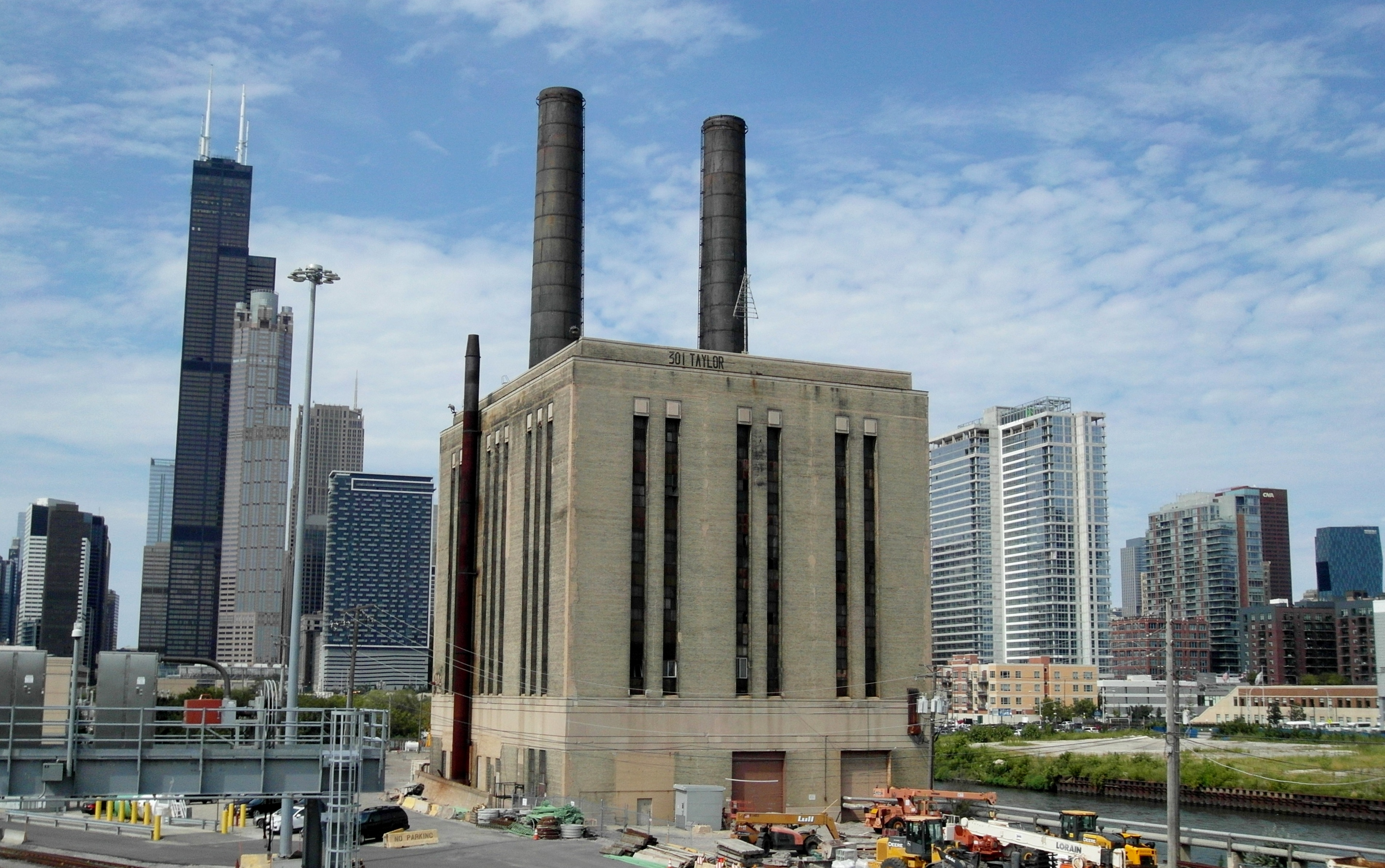 Chicago Union Station Power House, viewed from the south, taken from Roosevelt Road.